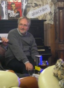 Photo of Raymond Benson at Admiral Hotel event in Milan